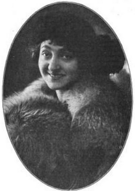 A smiling young woman, wrapped in a fur, wearing a dark hat. The black-and-white photo is in an oval frame.